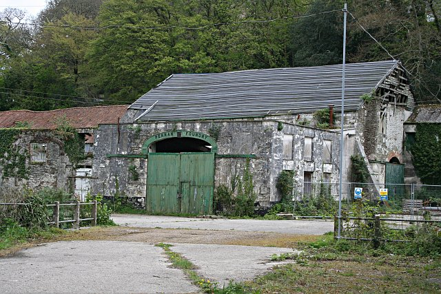 The Perran Foundry. This derelict industrial site awaiting "sympathetic redevelopment" is of international significance. Above the green door, the name plate shows the year 1791 as the date of establishment of the foundry. The foundry was most active from the 1820's to the 1860's when it made and shipped huge mine pumping engines all over the world. Engines created here were sent to mines in South Australia, Mexico and South Africa. Along with each engine, the company would normally send an engineer to assemble, install and run the engine.